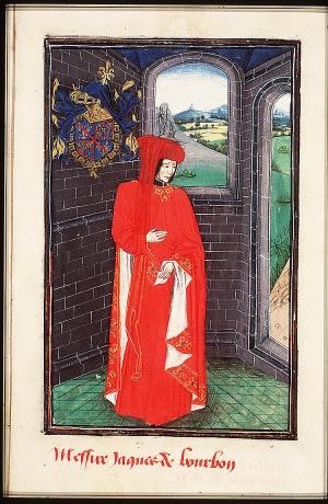 Statuts, Ordonnances et Armorial de l'Ordre de la Toison d'Or (Statutes, Ordonnances and armorial of the Order of the Golden Fleece) Place of origin, date: Southern Netherlands; 1473. Added sections: Southern Netherlands; 1478 or shortly after and 1491 or shortly after Material: Vellum, ff. 86, 249x187 (167x106) mm, 23 lines, littera cursiva (lettre bourguignonne). French. Binding: 18th-century brown leather Decoration: 1 full-page miniature (170x115 mm) with border decoration; 92 miniatures (185/155x120/100 mm); 1 historiated initial (80x90 mm) with border decoration; decorated initials with border decoration (ff., Added section: miniatures ; 4 drawings for miniatures (not finished) Provenance: Presented in 1473 by Gilles Gobet, King of Arms of the Order of the Golden Fleece, to Charles the Bold, Duke of Burgundy and the other Knights during the Chapter of the Order held at Valenciennes; Treasure of the Golden Fleece, Brussls; taken away by the Treasurer C.-F. Humyn (d. 1735) or his daughter C.Ch. de Corte; by legacy to her daughter M.-L. de Corte, wife of Ph.-E. de Poederlé; purchased in 1781 at the Poederlé sale by G.-J- Gérard of Brussels; acquired in 1832 as part of the Gérard collection (no. A 27)